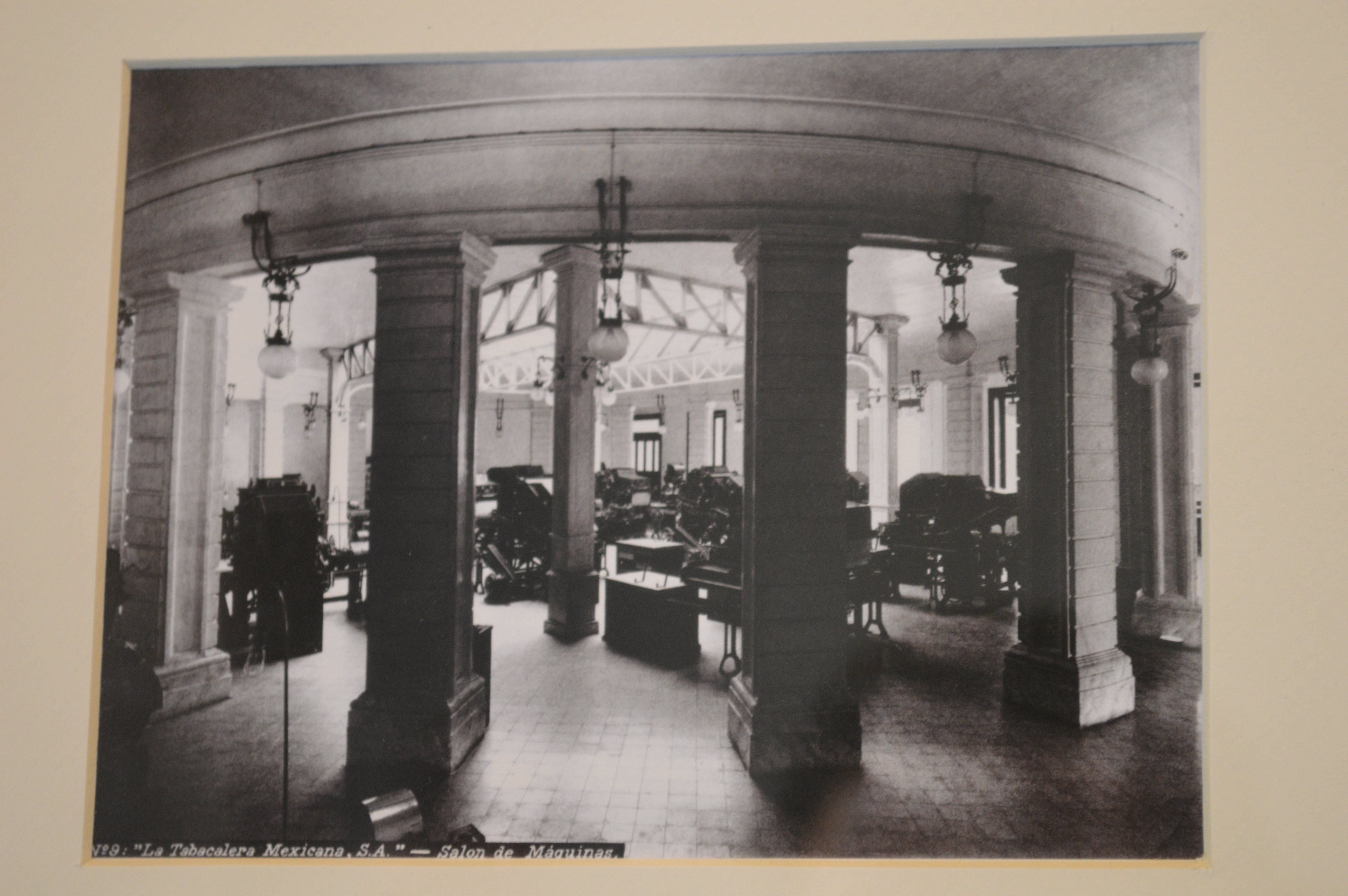 1907 Photograph by Guillermo Kahlo of the old Tabacalera cigar factory (today the Museo Nacional de San Carlos) in Mexico City